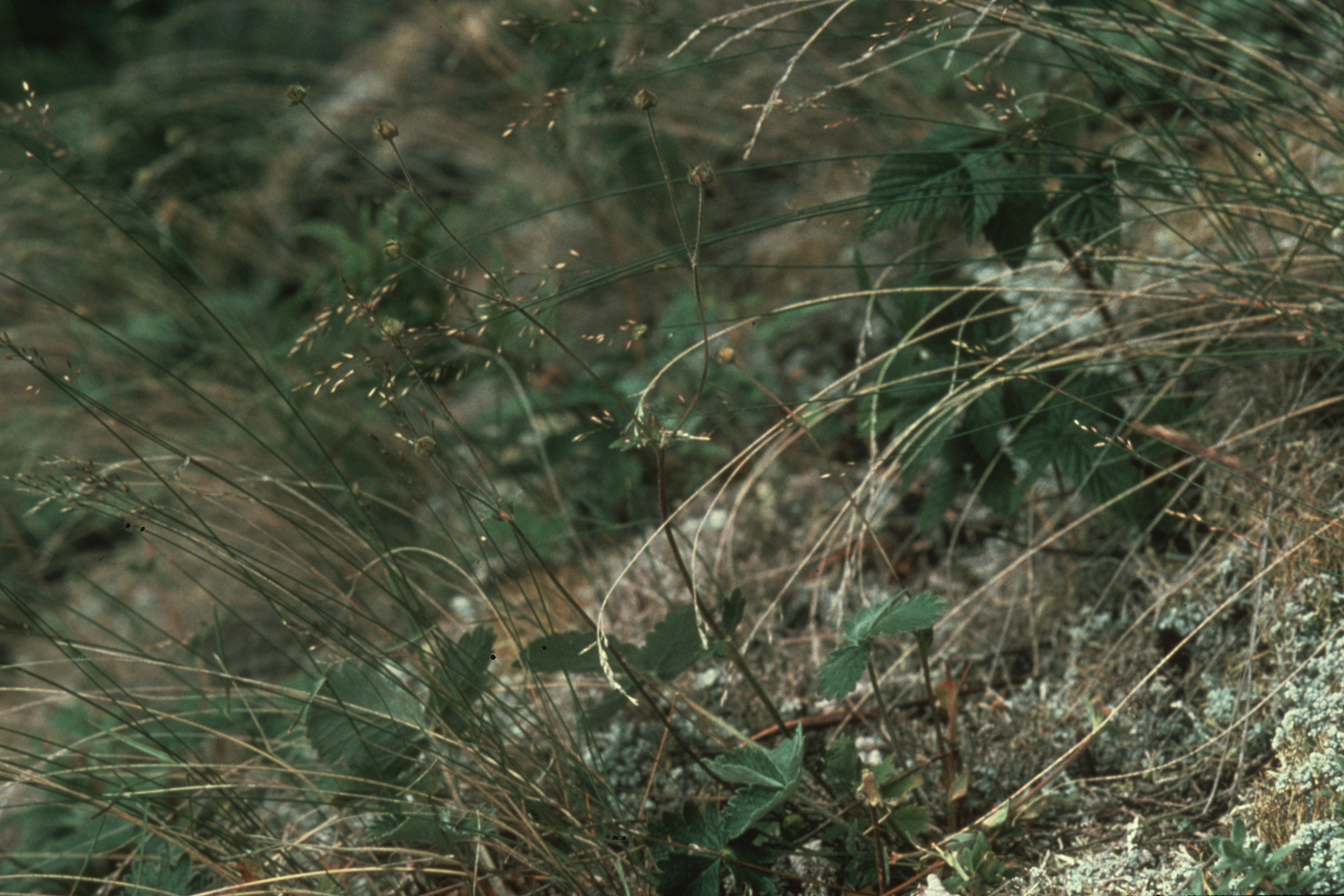 Potentilla nivallis Poa glauca